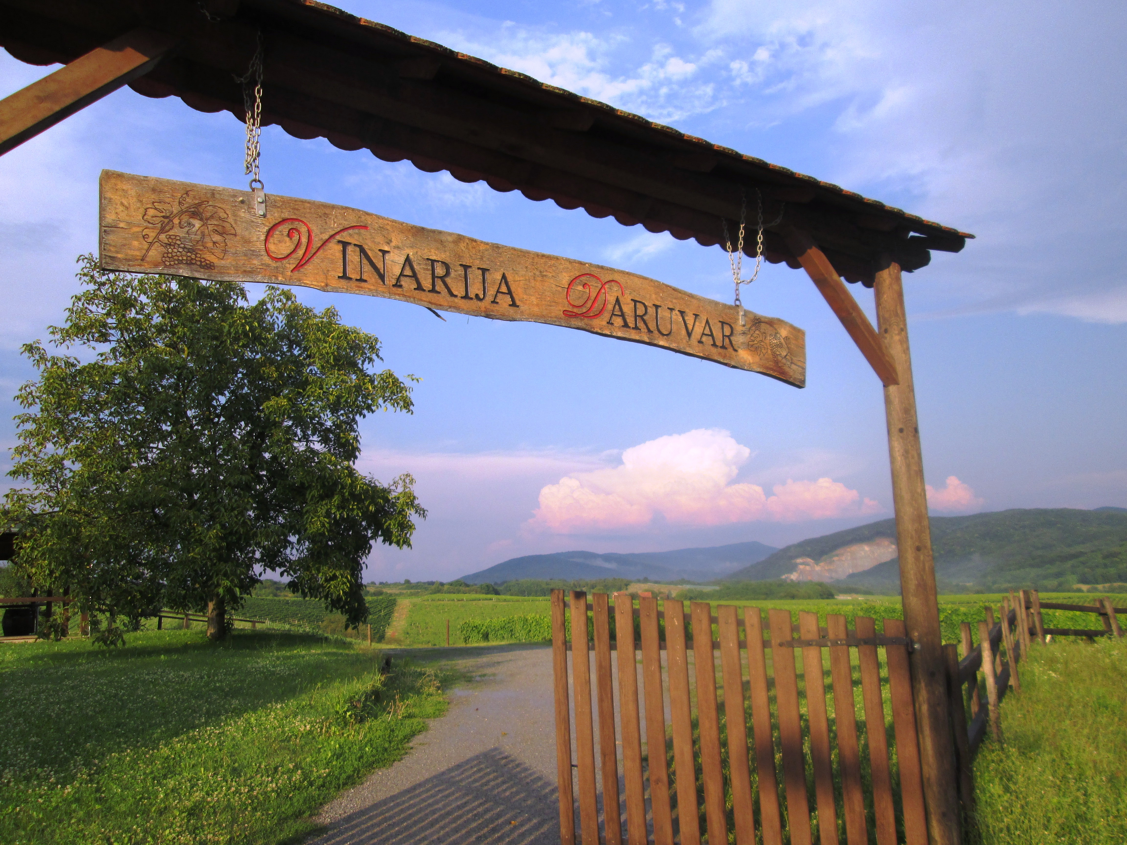 Daruvar wineyard, Croatia